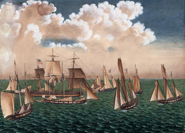 Betsey, surrounded by seven French corsairs